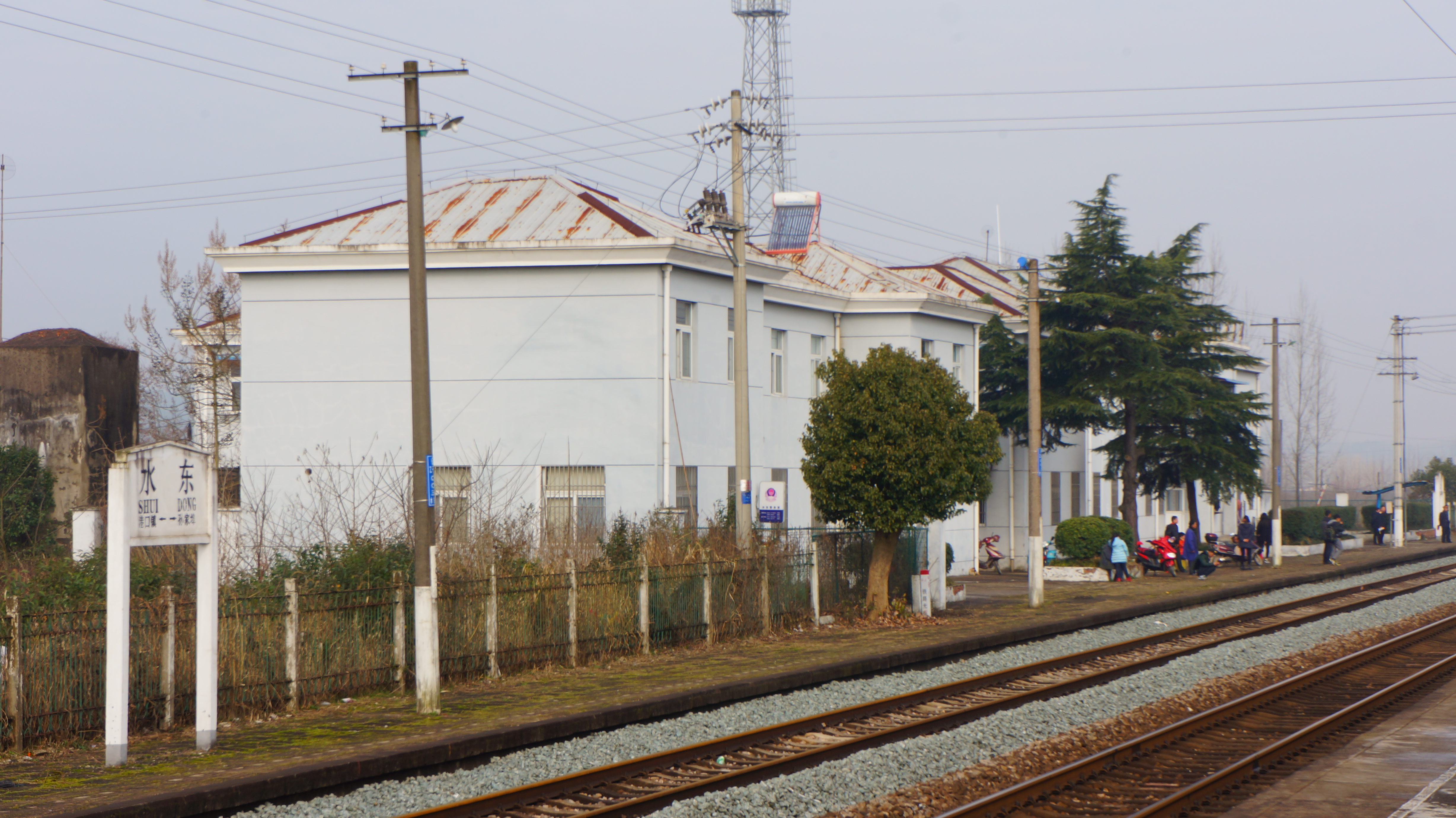 201601, Shuidong Railway Station